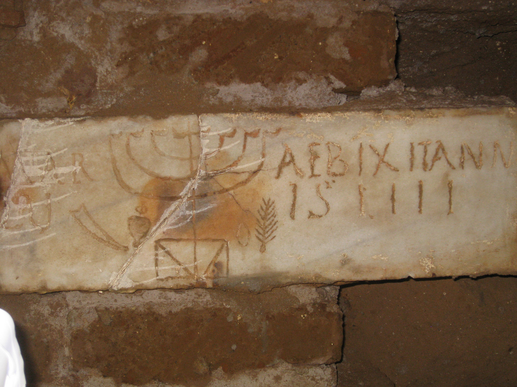 Via Appia, Italy, Jewish catacombs